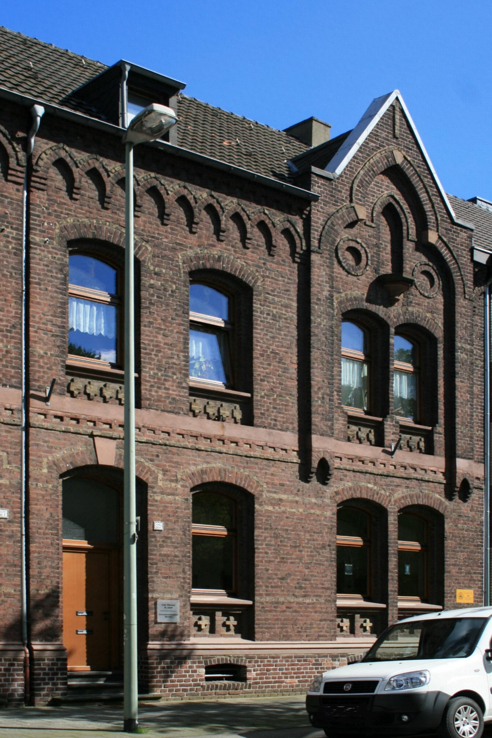 Cultural heritage monument No. R 039 in Mönchengladbach